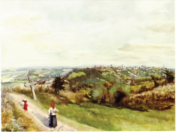 Augusta Kochanowska, "View of Cracow", 1890